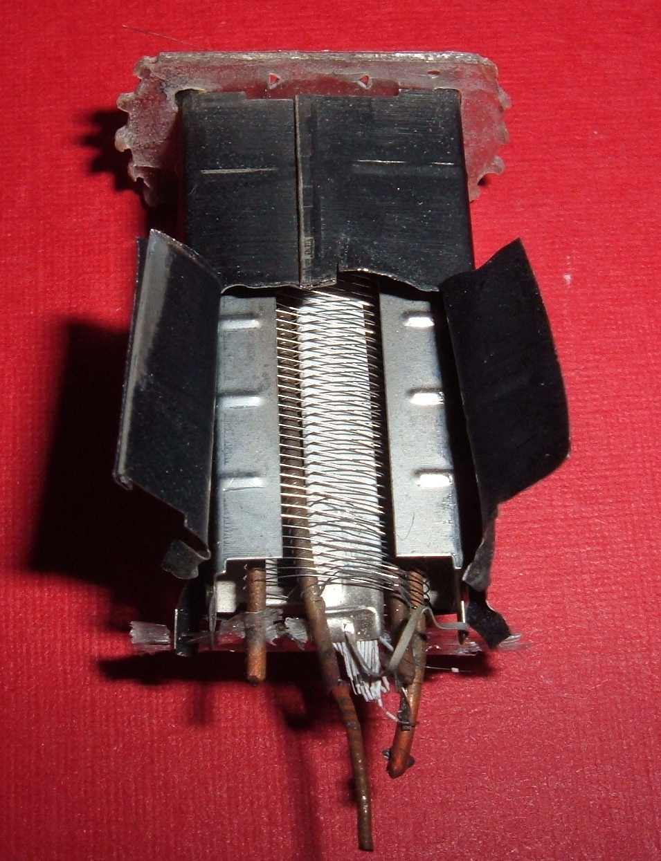 Octal-base power vacuum tube cut open. I took this picture of an artifact in my possession. --agr 20:56, 30 November 2005 (UTC)